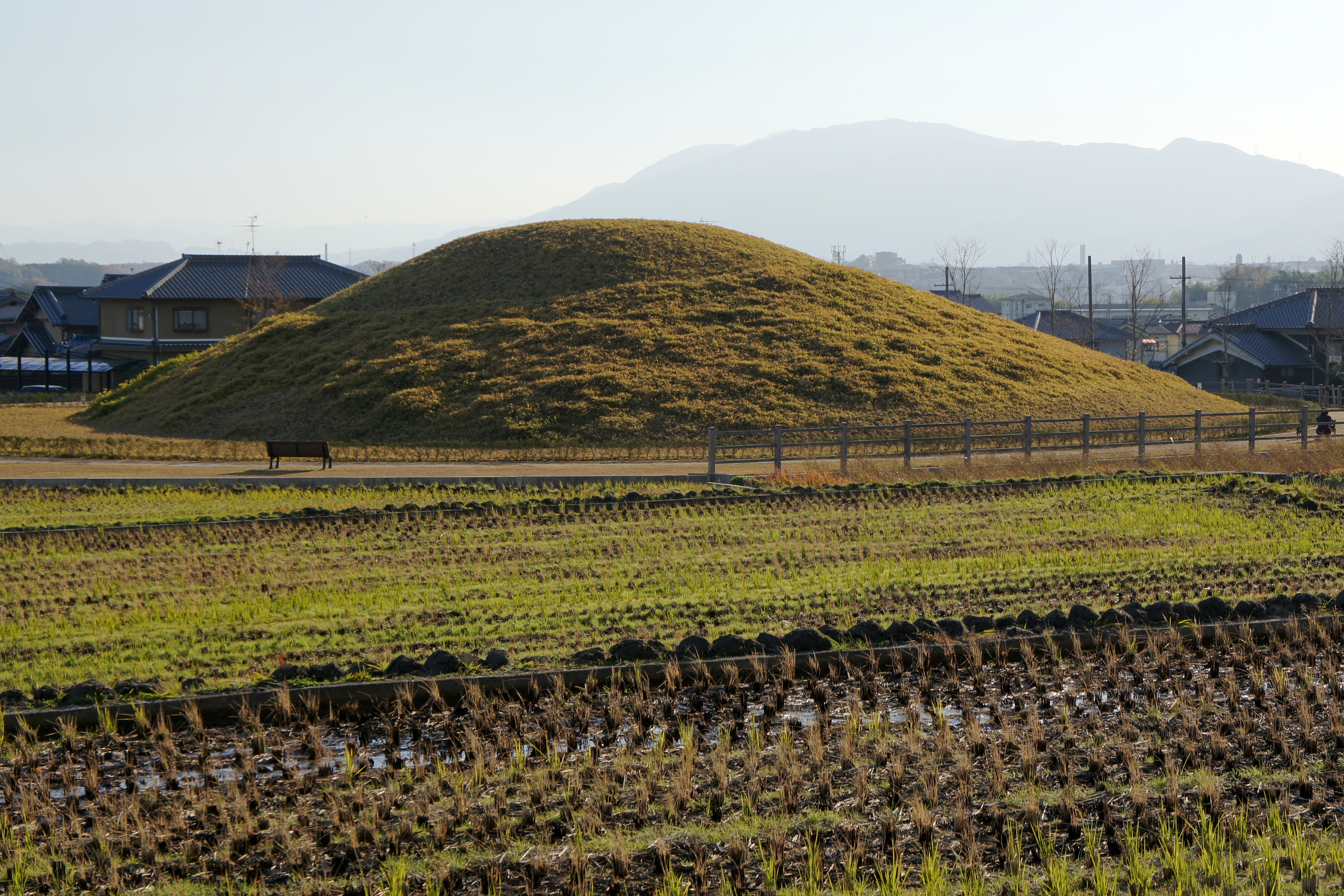 Fujinoki Tomb in Ikaruga, Nara prefecture, Japan.